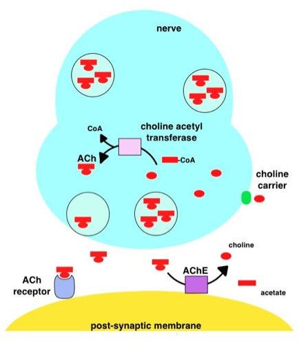 Depiction of mechanism of action of the enzyme acetylcholinesterase (AChe) in synaptic transmission